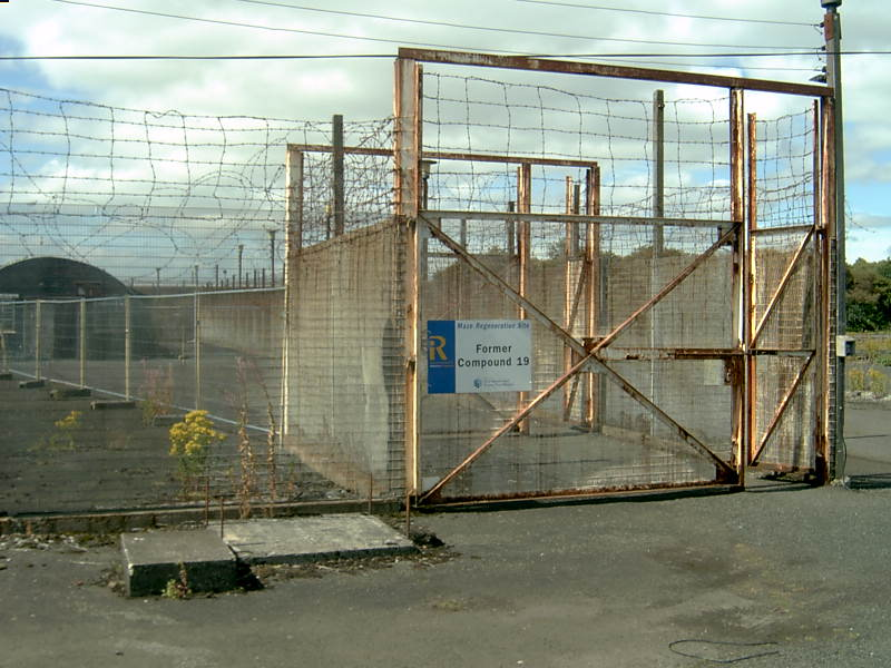 A picture I took on the 3rd of August, 2006. It shows the entrance to Compound 19 of the Long Kesh Internment Camp.